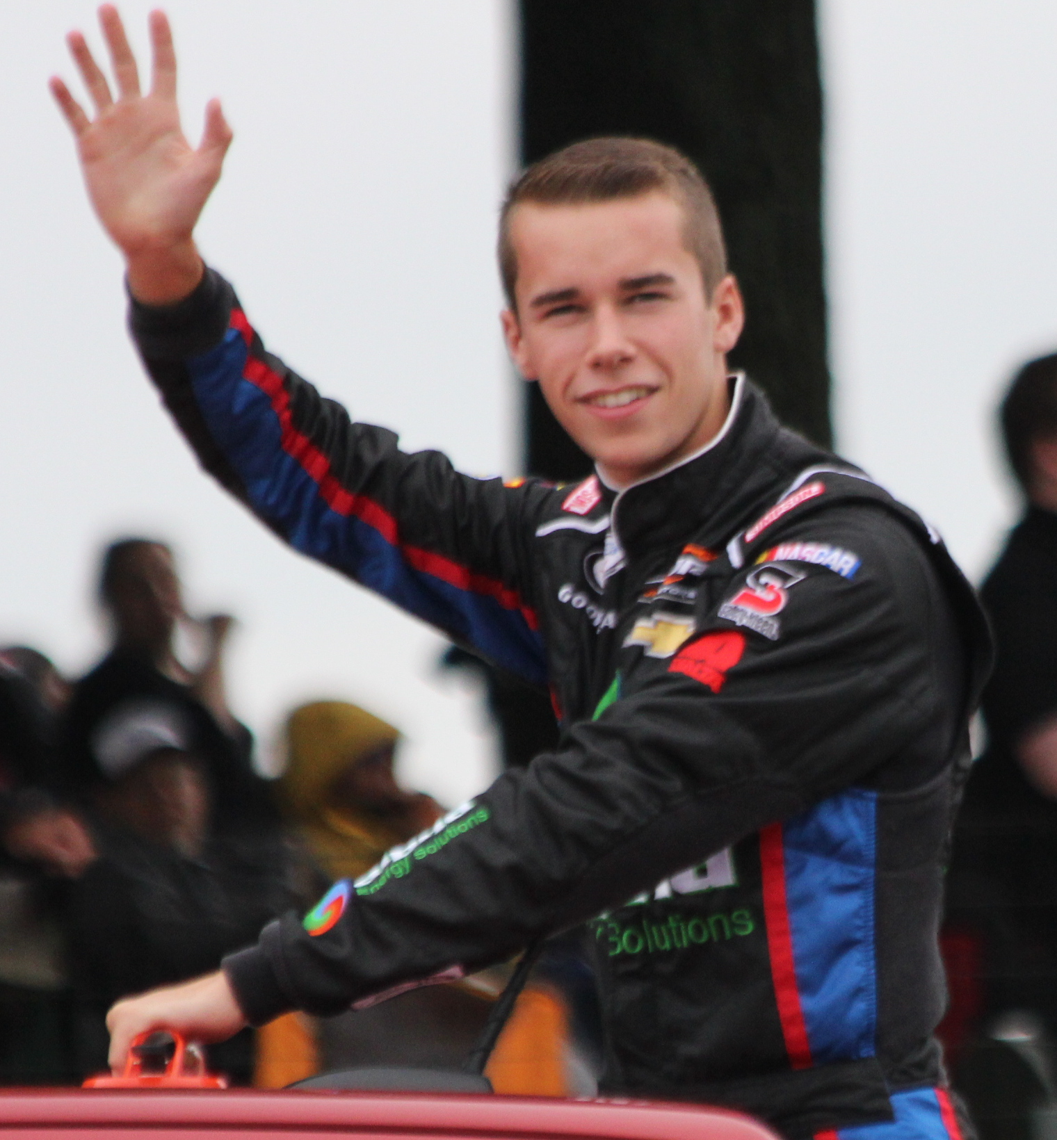 NASCAR driver Ben Rhodes waves to the crowd during drivers introduction at the Xfinity Series race at Road America. He sat on the pole after qualifying was rained out since he was the fastest driver in the first practice session on the previous day.